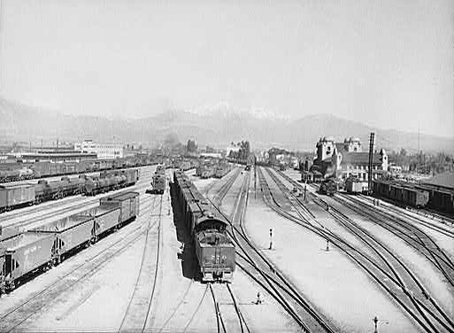 San Bernardino, California. General view of part of the Atchison, Topeka and Santa Fe Railroad yard.